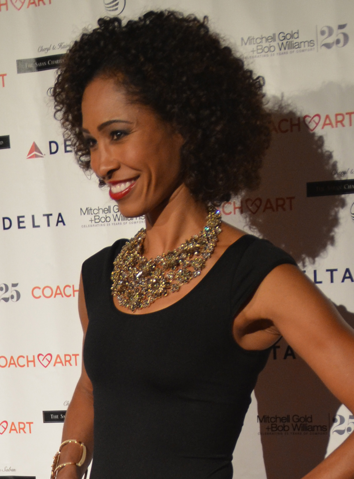 Television anchor Sage Steele at the 10th Annual CoachArt Gala Fundraiser on October 16, 2014